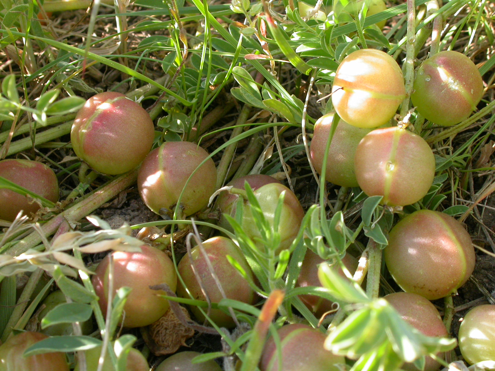 The plum-like fruits nested among pinnate leaves are very distinctive of this species.